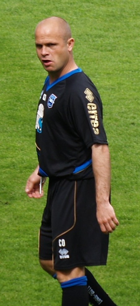 Photograph of Charlie Oatway